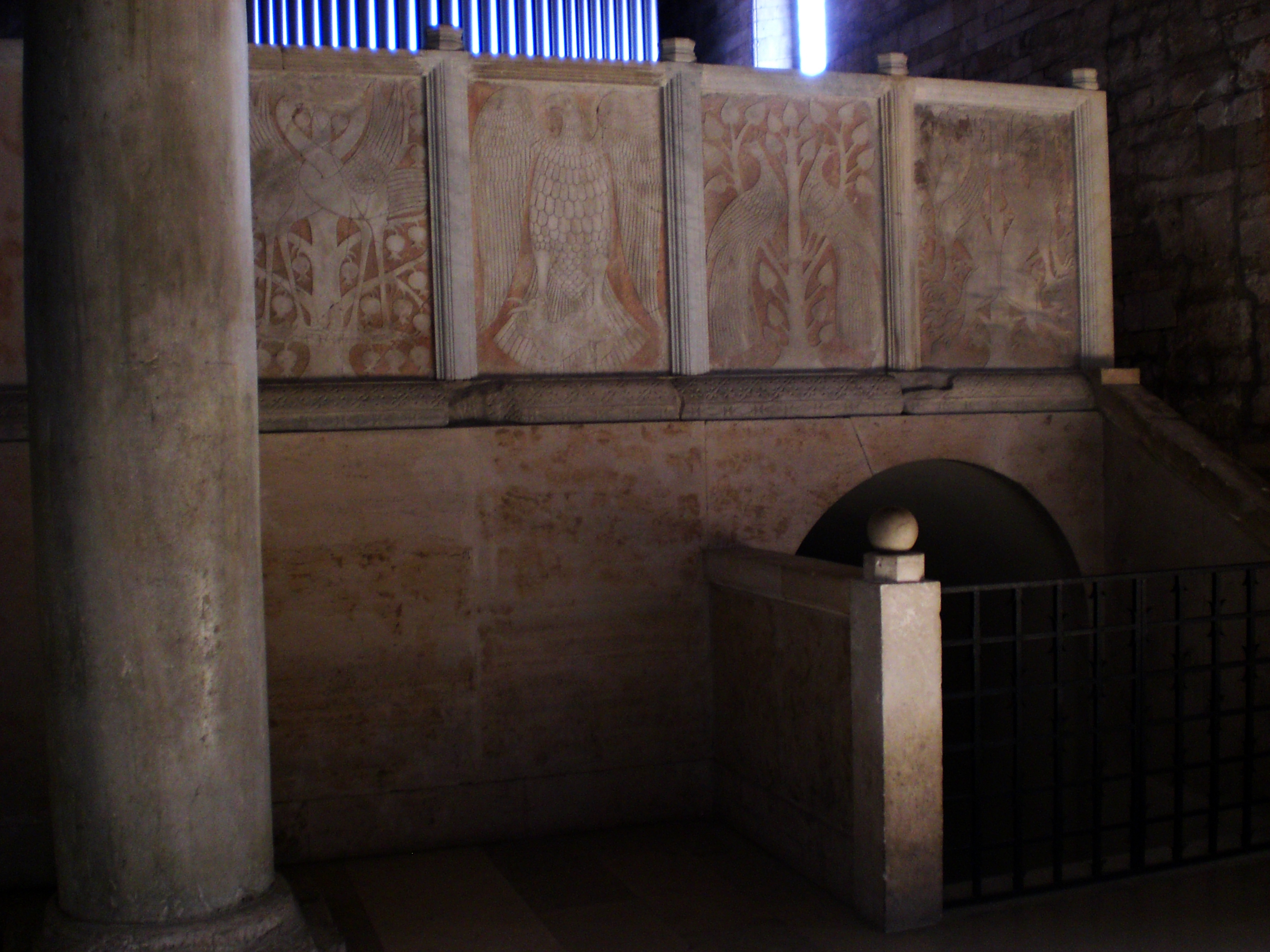 Ancona, Saint Cyriacus Cathedral, X-XII century